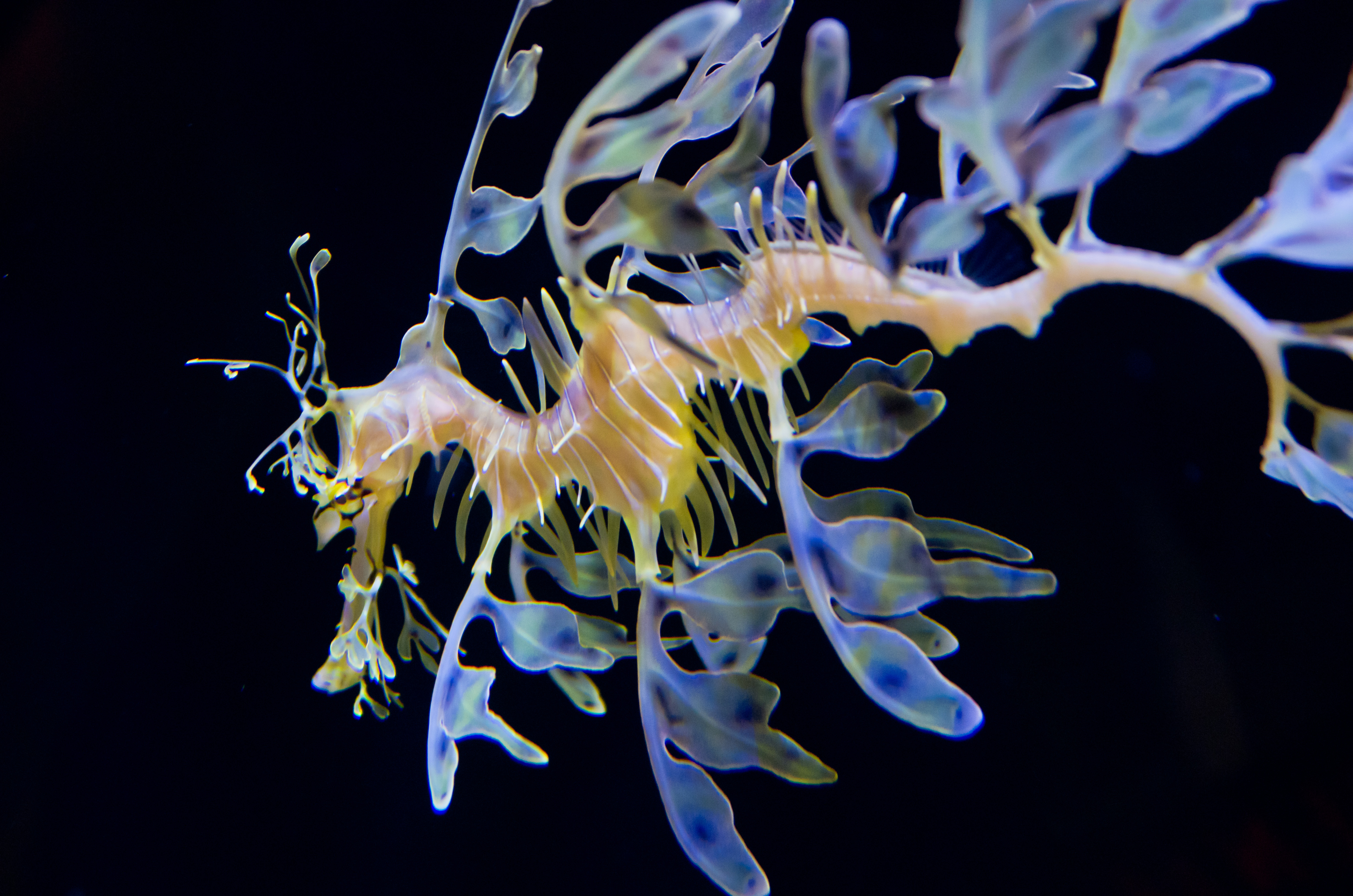 Seahorse in Birch Aquarium